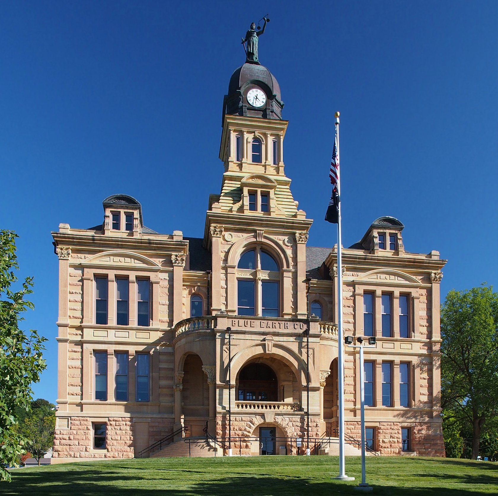 Blue Earth County Courthouse, 204 S 5th St, Mankato, Minnesota, USA. Viewed from the northwest.